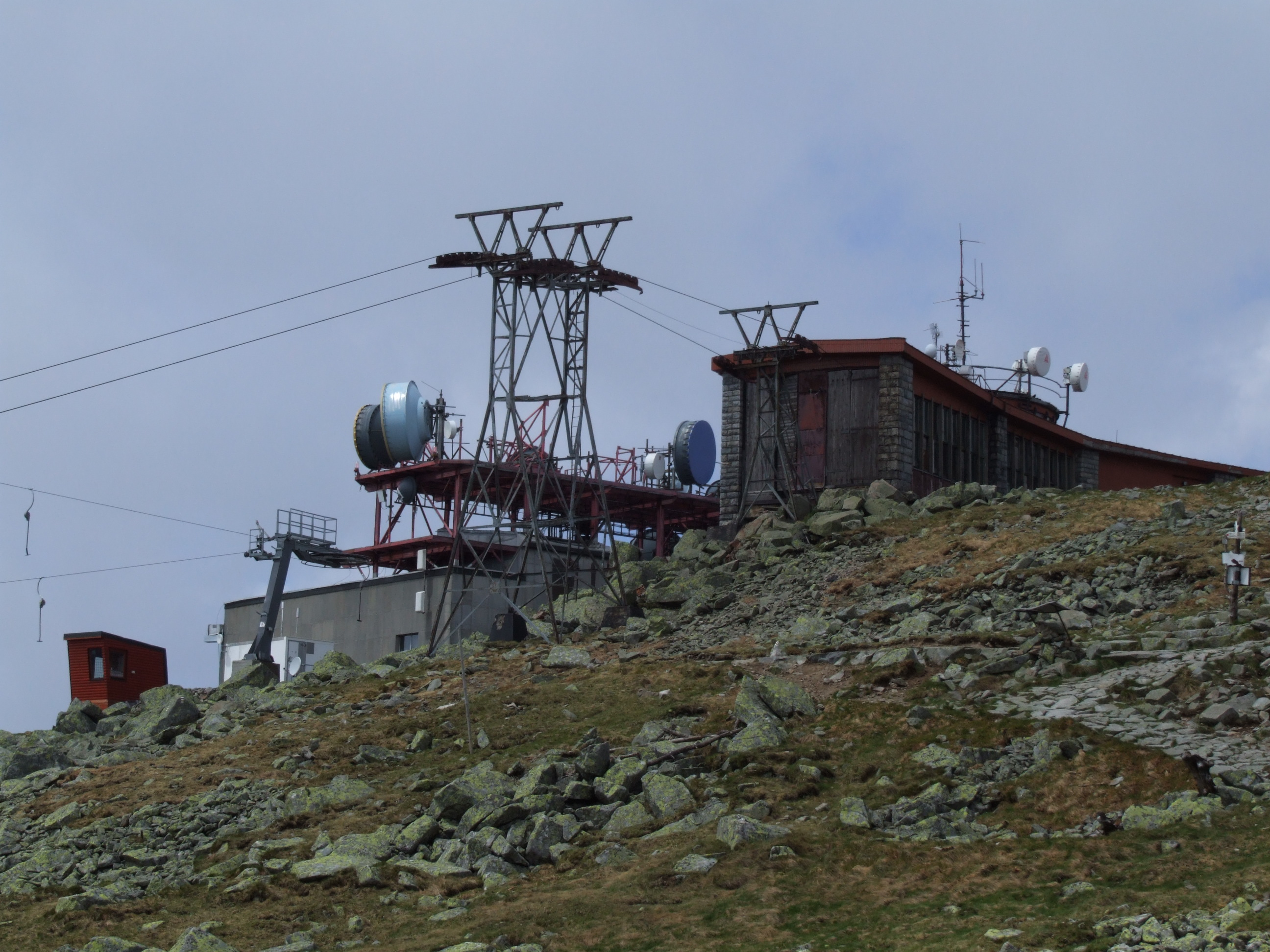 Chopok, Low Tatras - ski lifts and TV station